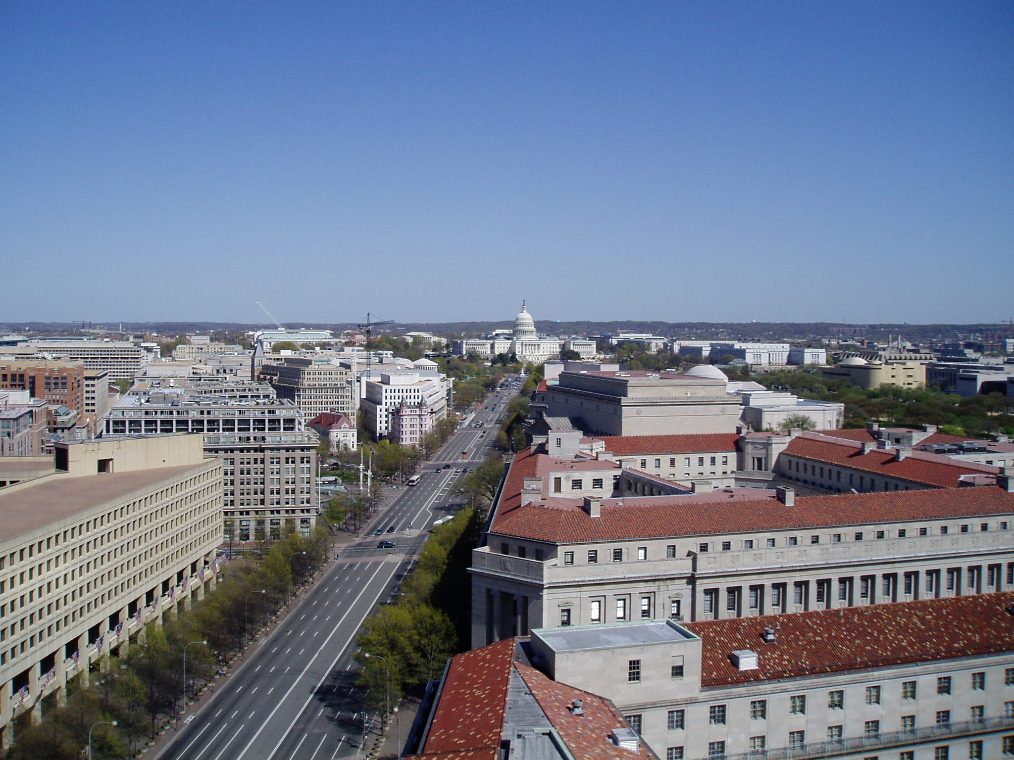 View looking southeast of Pennsylvania Avenue from the tower at the Old Post Office Pavilion in Washington, D.C.